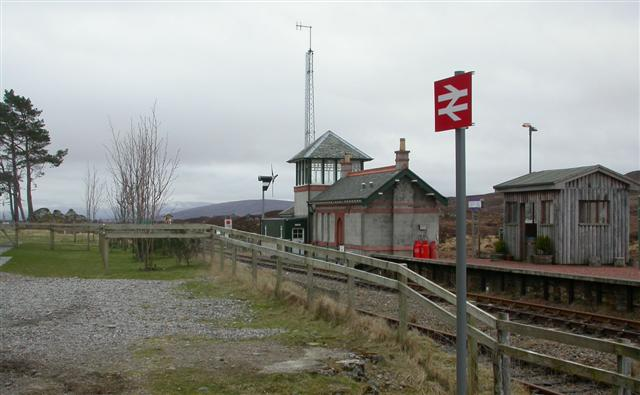 Corrour railway station in Scotland